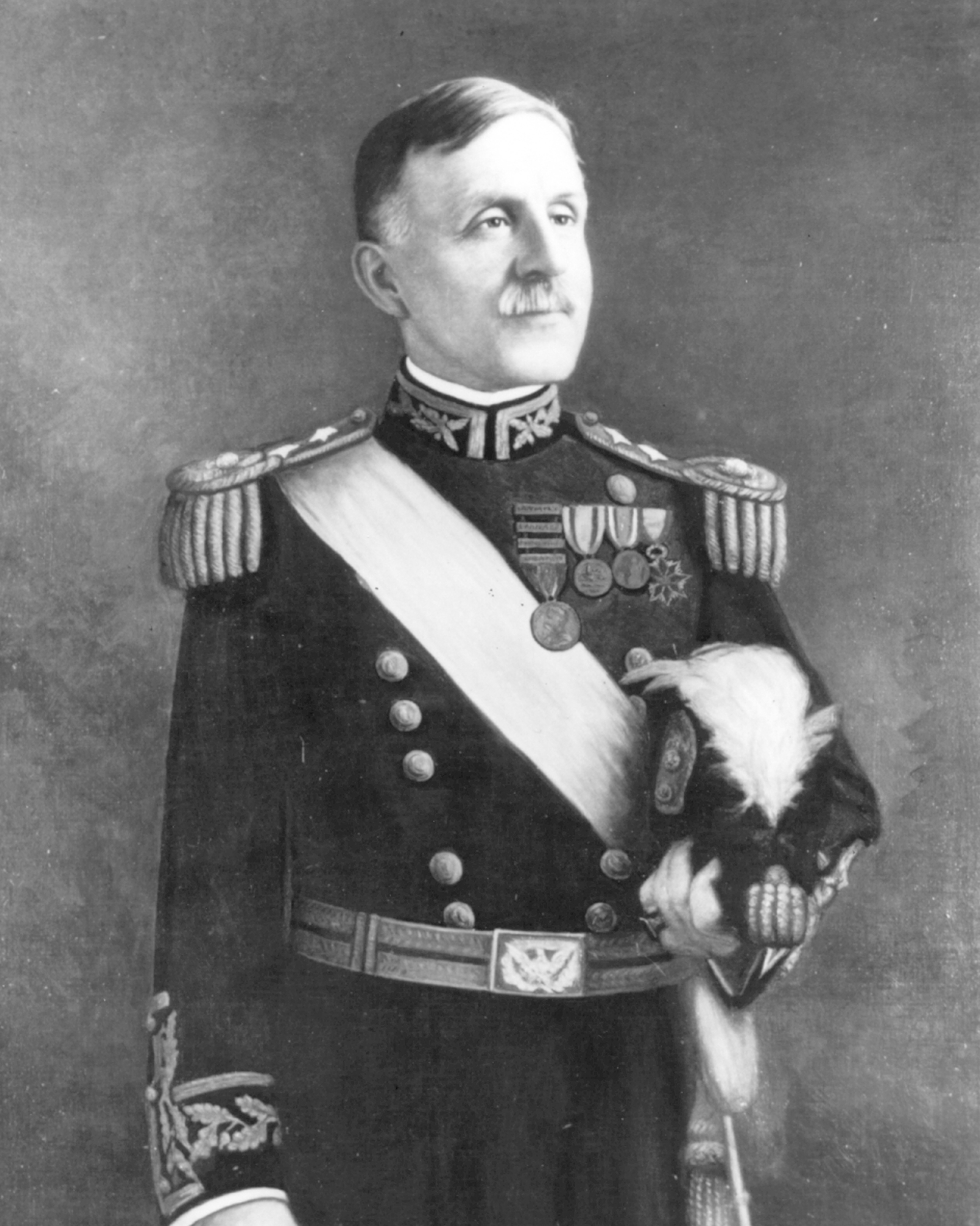 General George Barnett, USMC, Commandant of the Marine Corps